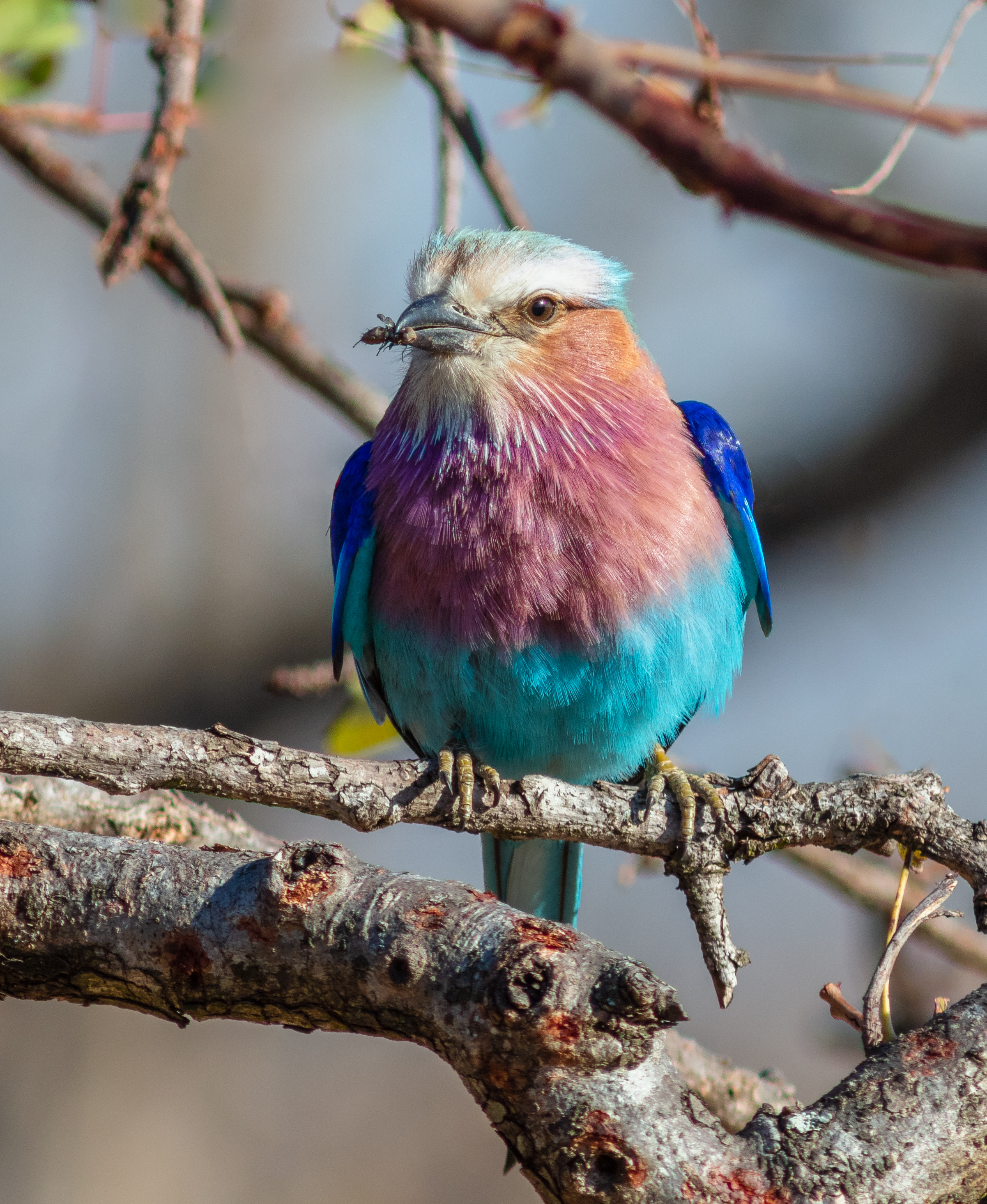 A Lilac-breasted roller (Coracias caudatus) individual in the Kruger National Park, South Africa.